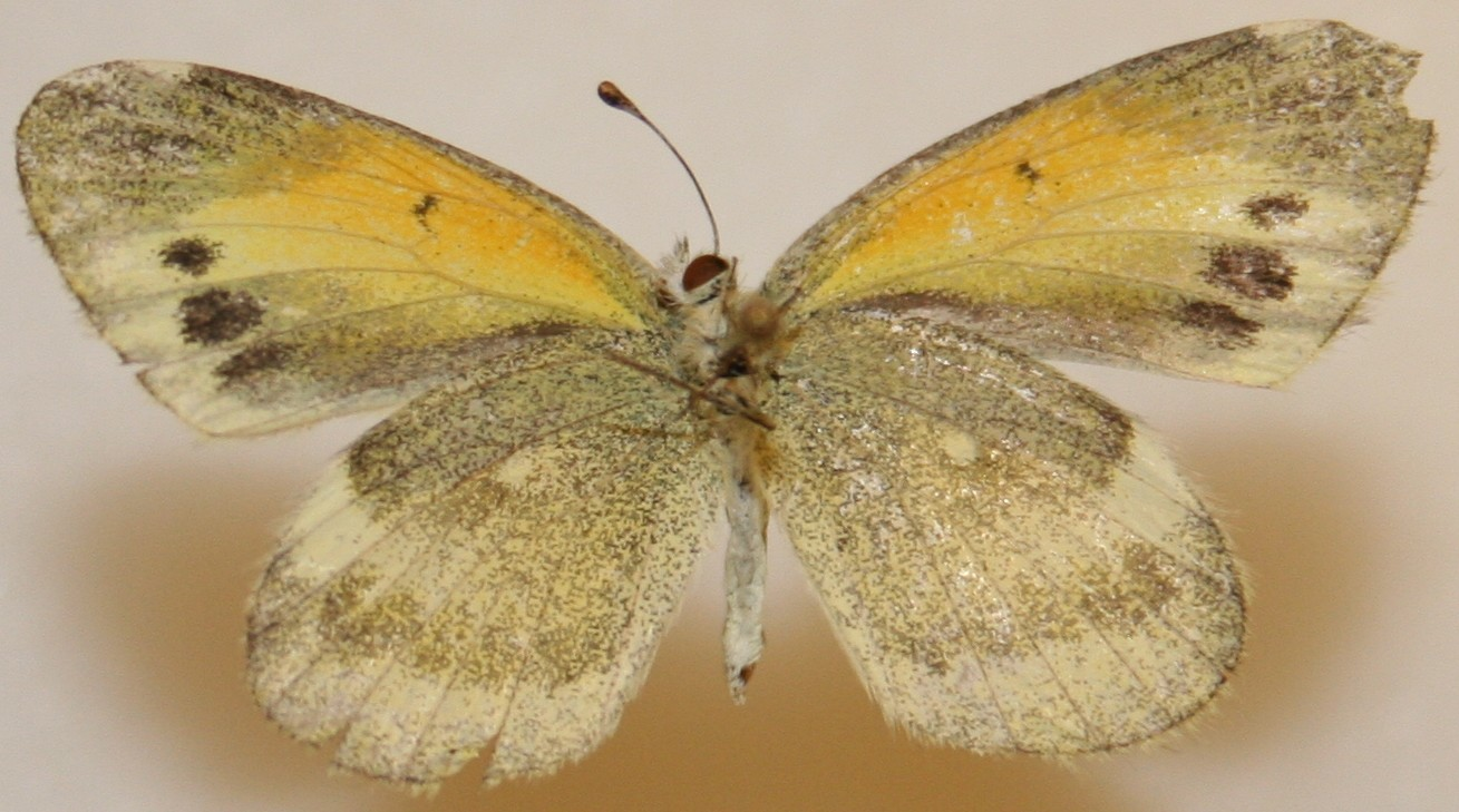 Dainty Sulphur, Nathalis iole (summer form)